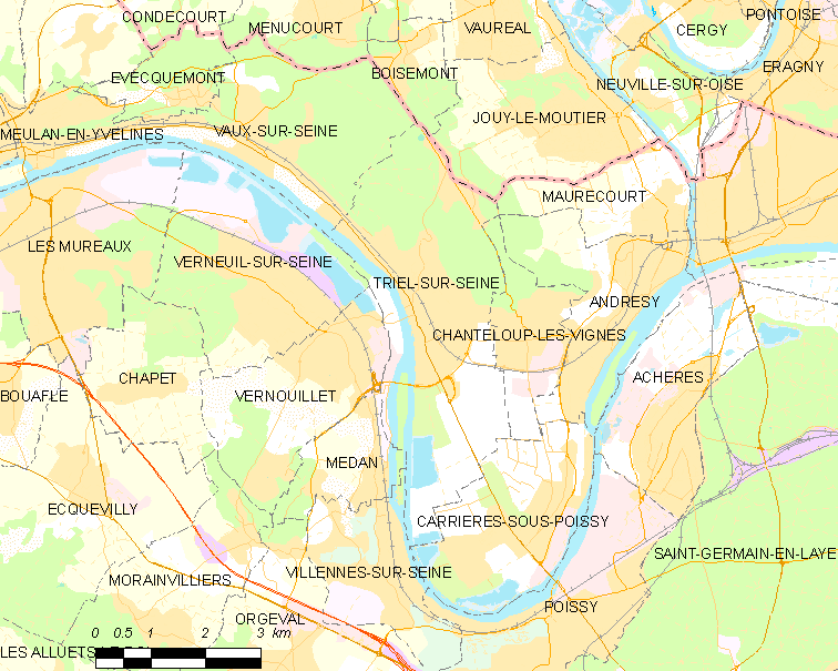 Map of French municipality Triel-sur-Seine